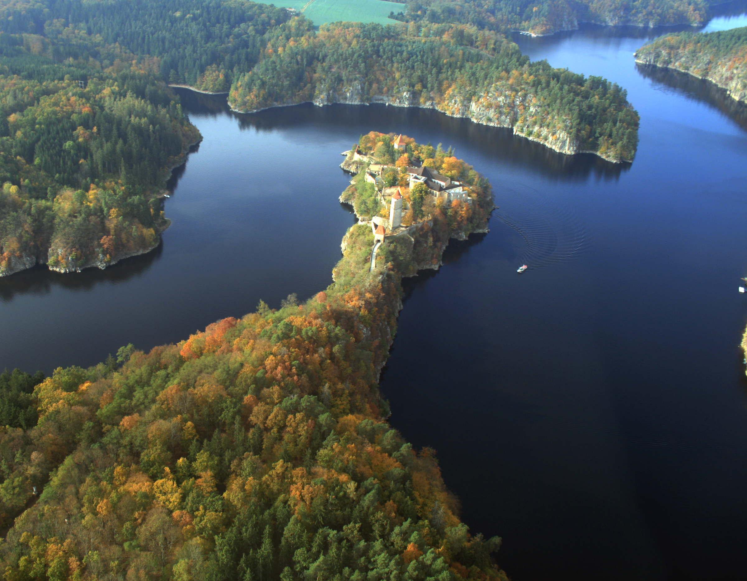 Air photo of Zvíkov Castle on Orlík dam on Vltava river, the Czech Republic